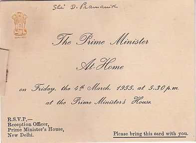 Invitation to meet the Prime Minister of India at HOME. An invitation card rarely recd ordinarily - historical document.